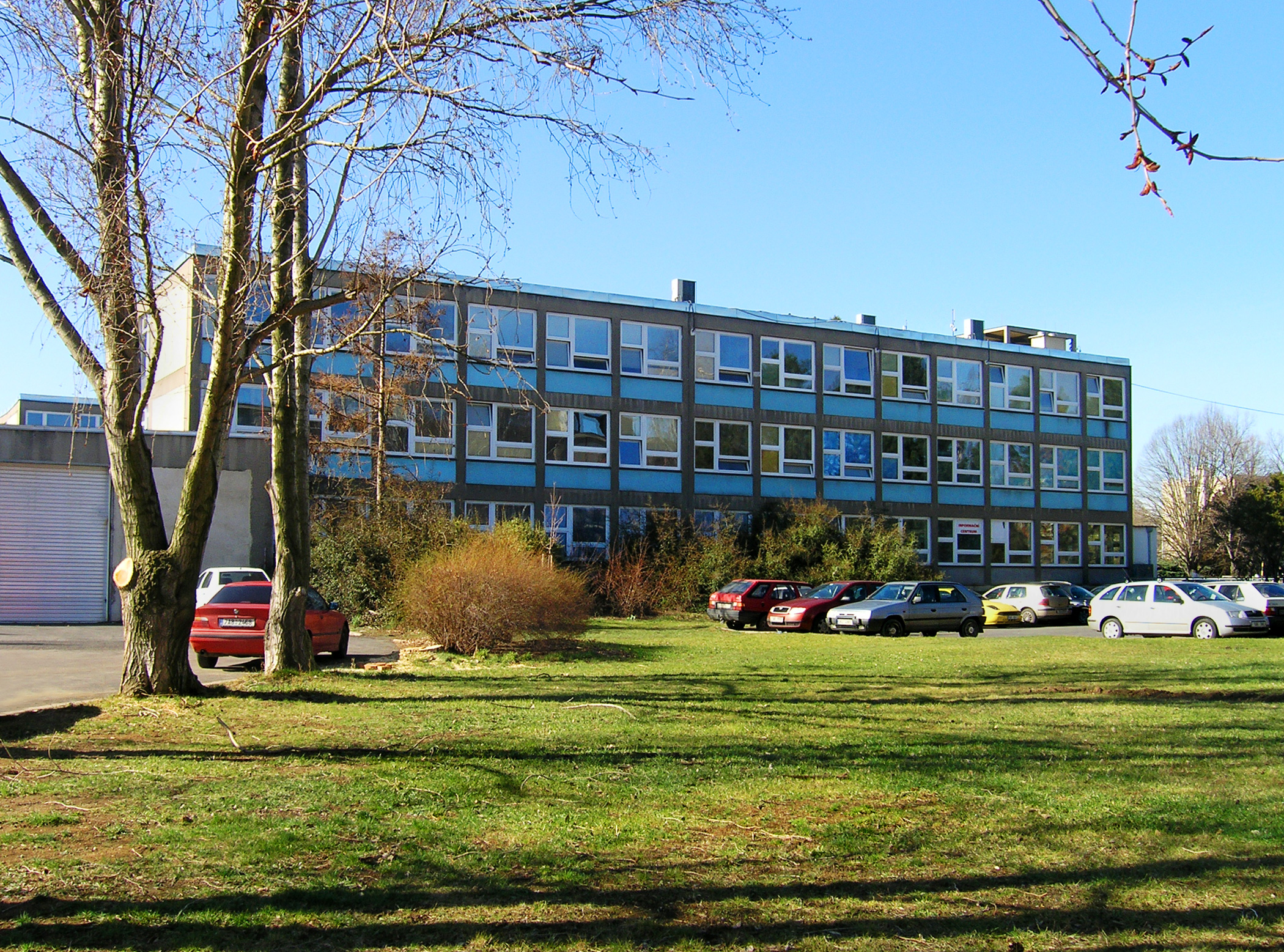 Czech University of Life Sciences Prague in Suchdol, Prague. Faculty of Engineering.